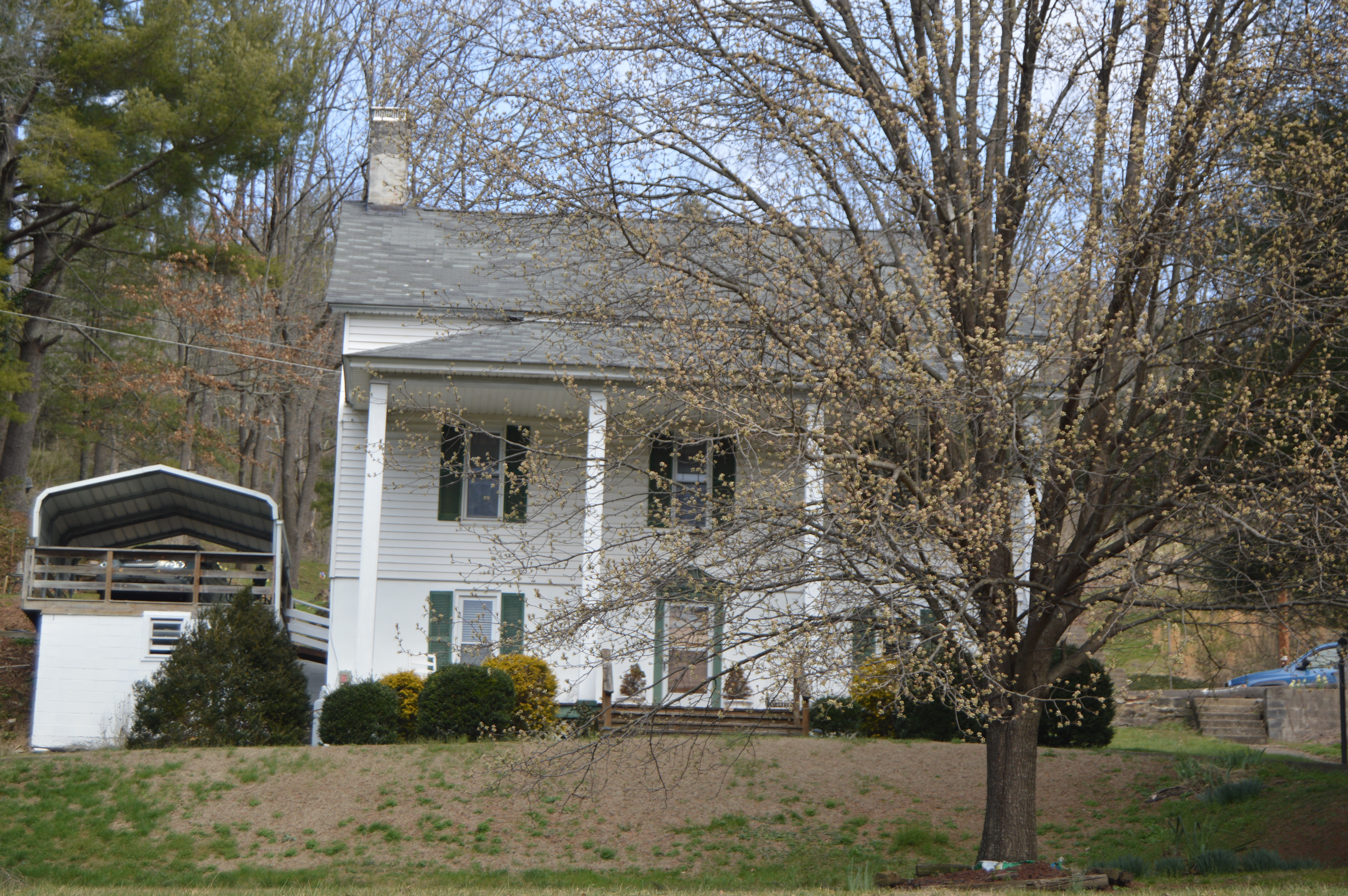 Southern front of one of the Fries Boarding Houses, located at 364 Grayson Street (seen here from Main Street) in Fries, Virginia, United States. Built at some point between 1901 and 1910, the house (together with its neighbor at 362 Grayson) is listed on the National Register of Historic Places.